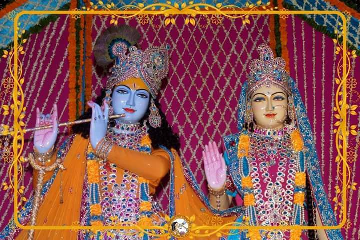 RadhaKrishna Darshan in Bhakti Mandir